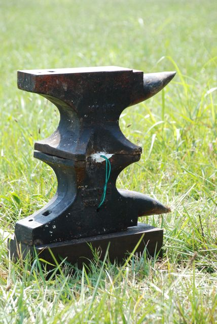 Anvil prep -- gun powder is in a chamber between the anvils. The green string is its fuse. Anvil fused and read to blow.